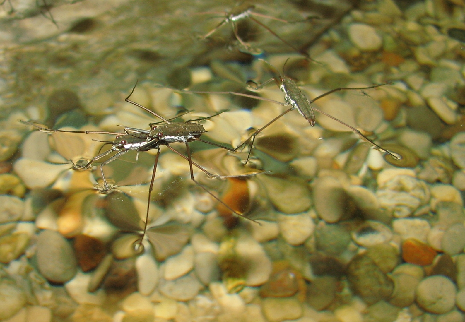 Water Strider - Gerris marginatus at Cincinnati Zoo